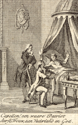 Deathbed of Van der Capellen tot den Pol. Subscript: Capellen! a true Patriot dies, Loyal; to Nation and God